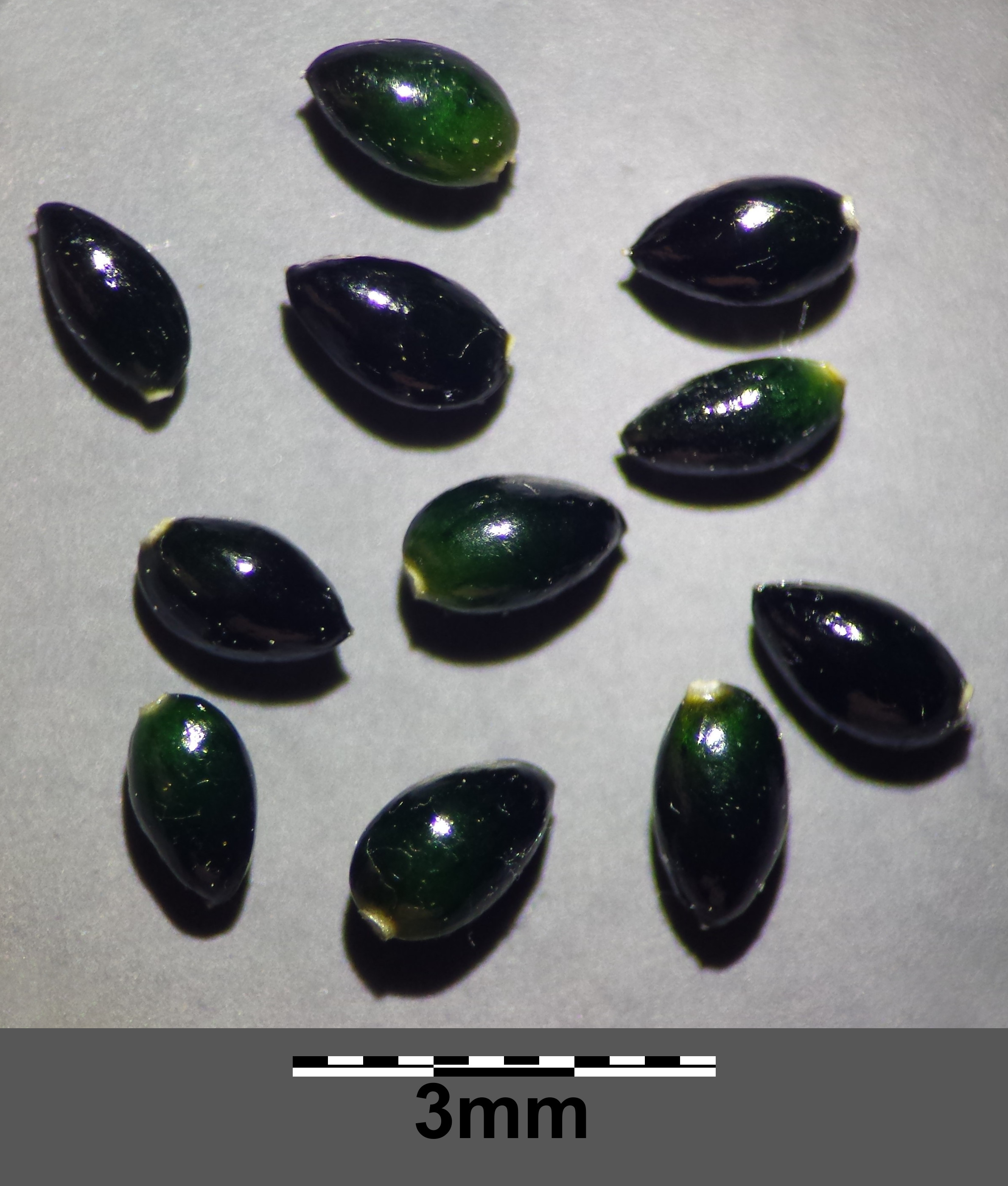 Fruits Taxonym: Parietaria officinalis ss Fischer et al. EfÖLS 2008 ISBN 978-3-85474-187-9 Location: Wasserpark, Vienna-Floridsdorf - ca. 160 m a.s.l. Habitat: border of a shrubbery